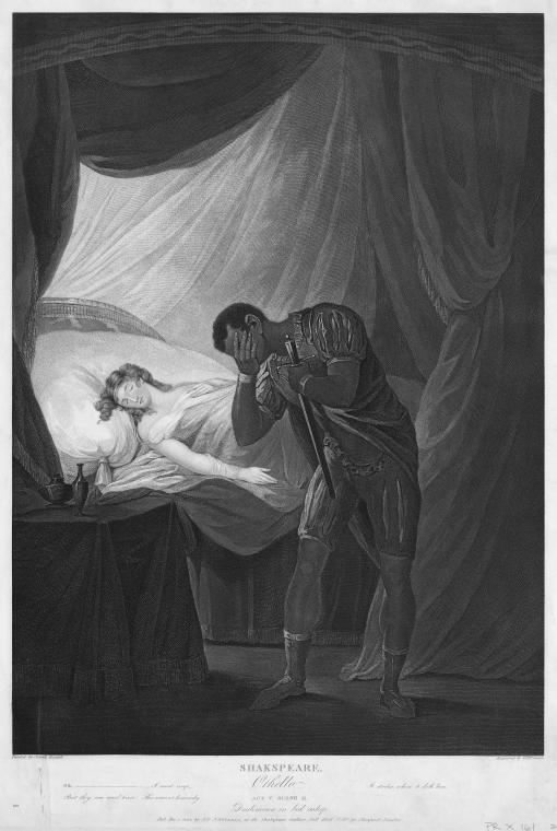 "Desdemona in bed asleep", from Othello (Act V, scene 2), part of "A Collection of Prints, from Pictures Painted for the Purpose of Illustrating the Dramatic Works of Shakspeare, by the Artists of Great-Britain", published by John and Josiah Boydell (1803)